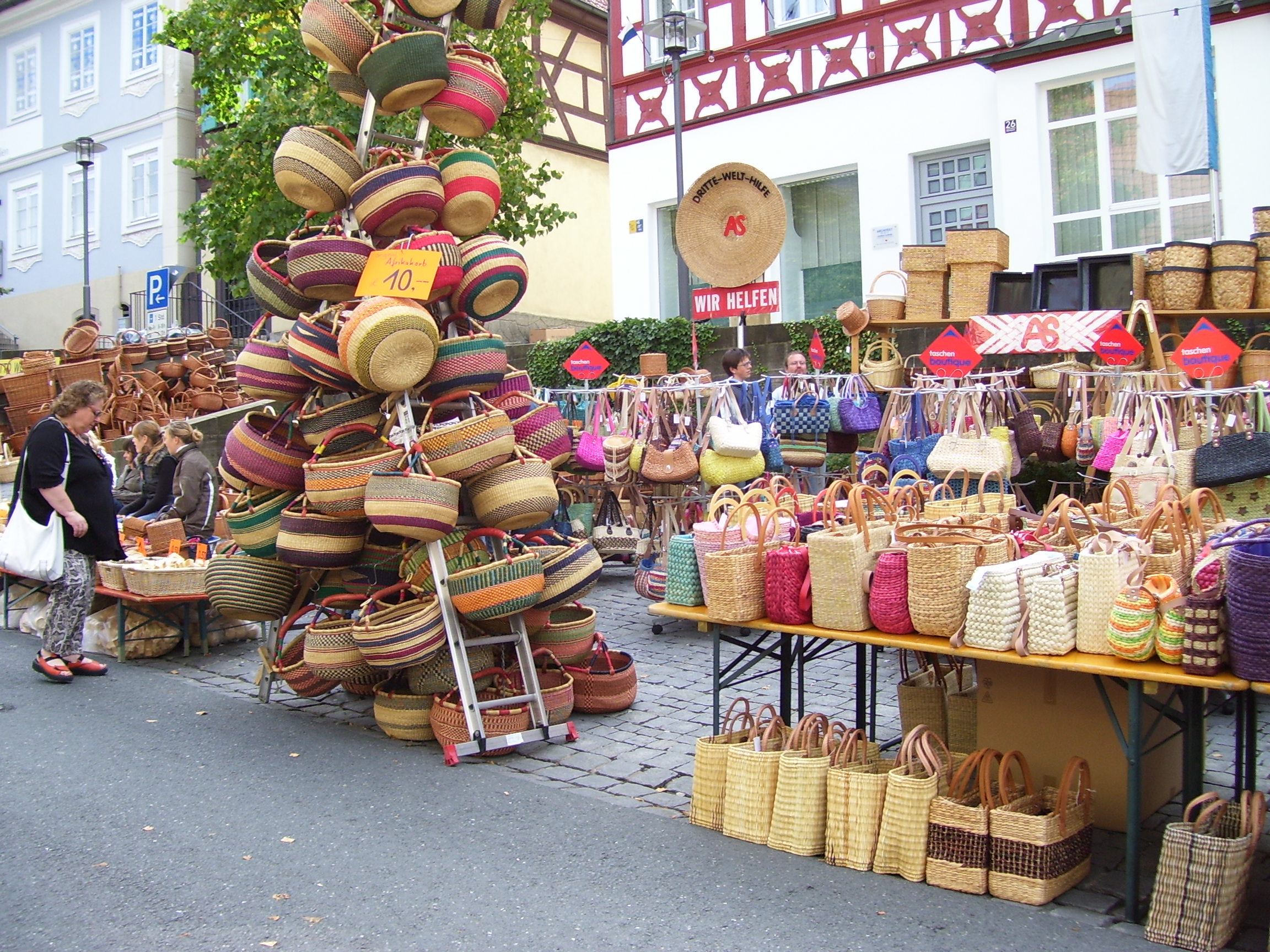 photo at basket market